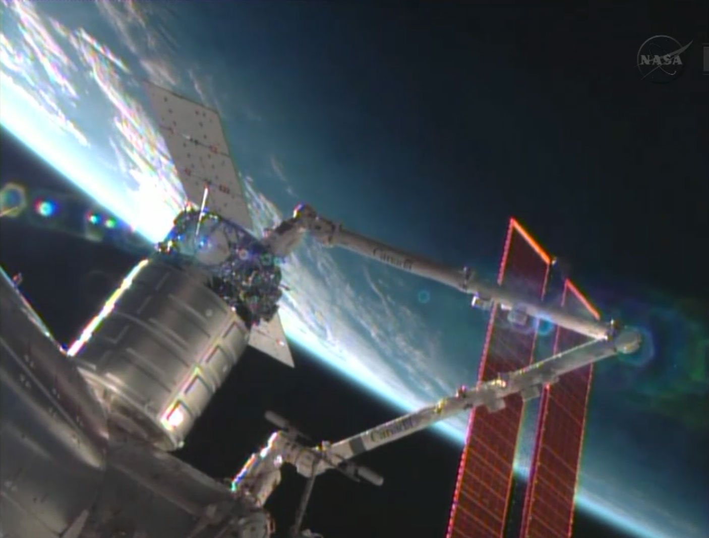 The Cygnus commercial resupply craft is installed by the Canadarm2 to the Harmony node.